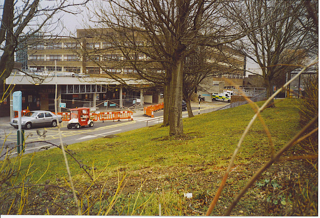 The Royal Surrey County Hospital. A large regional hospital, the RSCH also has an adjacent research park. Building work to the main entrance is seen in the photograph above.